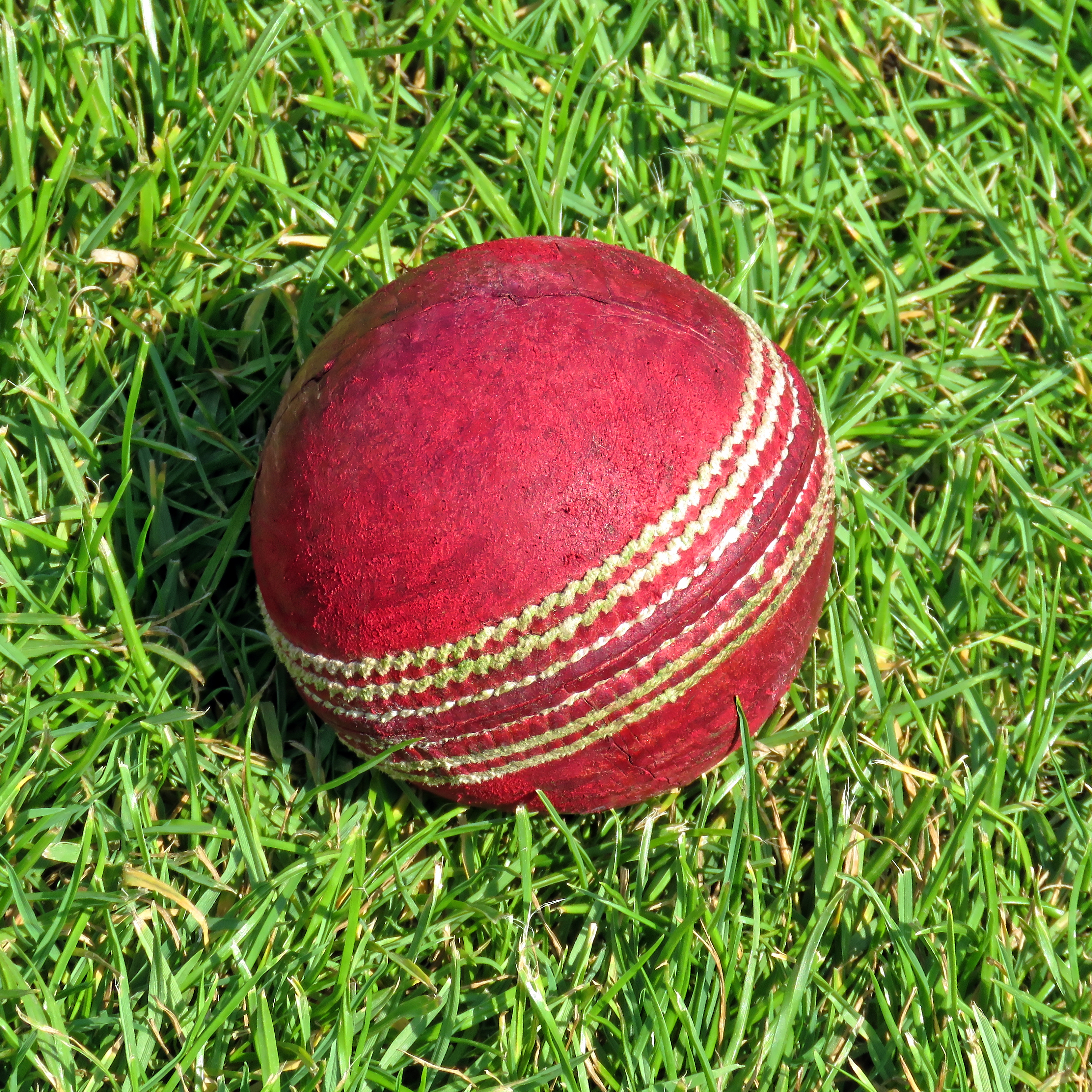 Cricket ball at a cricket ground on Park Road, Crouch End, London, England.Mobile device view: Wikimedia (as at July 2019) makes it difficult to immediately view photo groups related to this image. To see its most relevant allied photos, click on Cricket balls and this uploader's Cricket in London photos. You can add a click-through 'categories' button to the very bottom of photo-pages you view by going to settings... three-bar icon top left.Desktop view: Wikimedia (as at July 2019) makes it difficult to immediately view the helpful category links where you can find images related to this one in a variety of ways; for these go to the very bottom of the page.This image is one of a series of date and/or subject allied consecutive photographs kept in progression or location by file name number and/or time marking.Camera: Canon PowerShot SX60 HSSoftware: File lens-corrected, optimized, perhaps cropped, with DxO PhotoLab 2 Elite, and likely further optimized with Adobe Photoshop CS2.